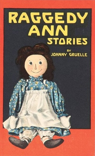 Johnny Gruelle's first Raggedy book.